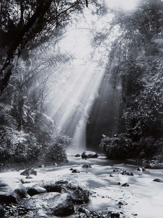 The Dago waterfall near Bandung